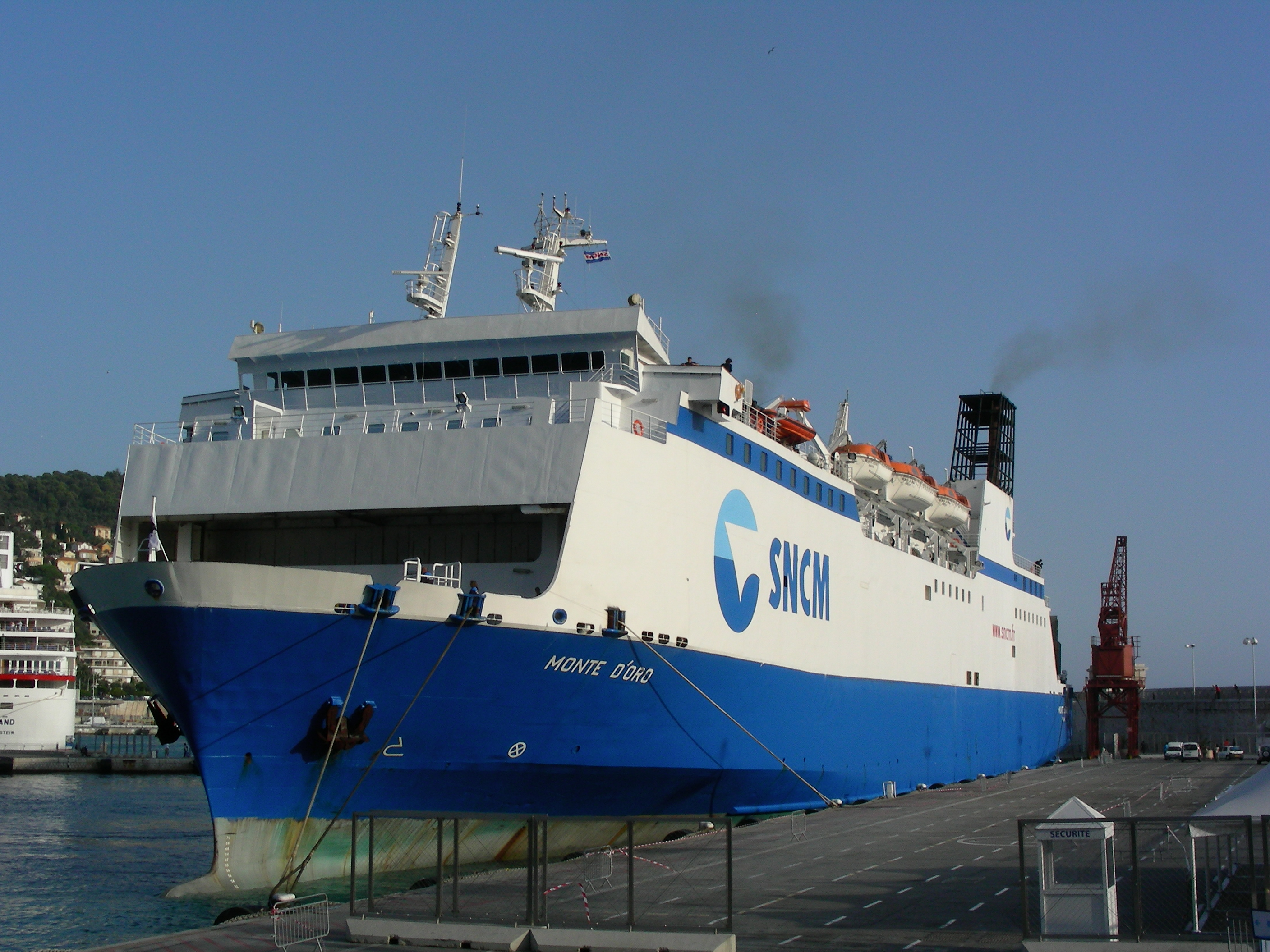 Monte d'oro, used by SNCM, just arriving at Nice côte d'azur port, by an afternoon end.